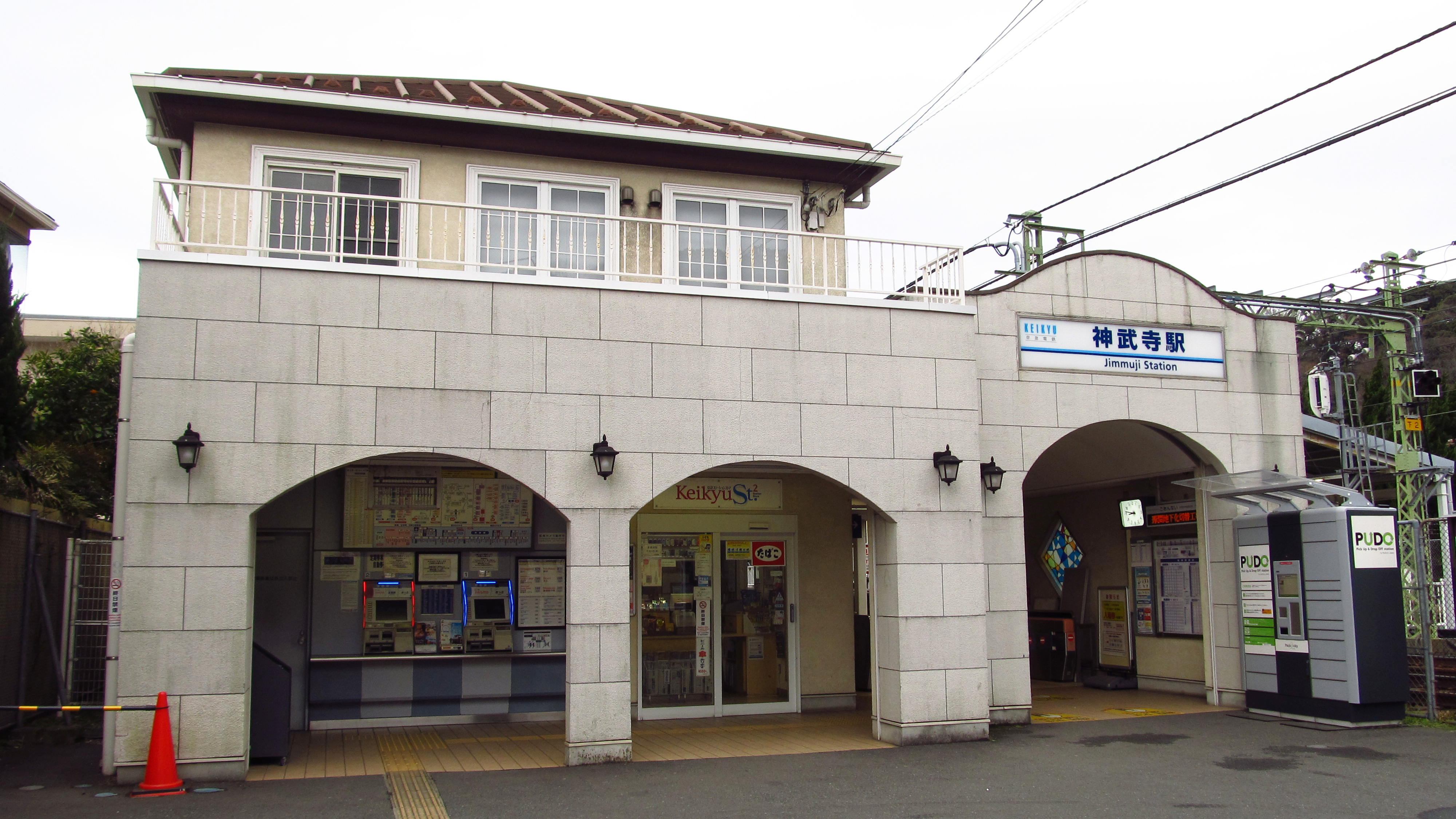 The building of Jimmuji Station on the Keikyū Zushi Line in Zushi city, Kanagawa prefecture, Japan